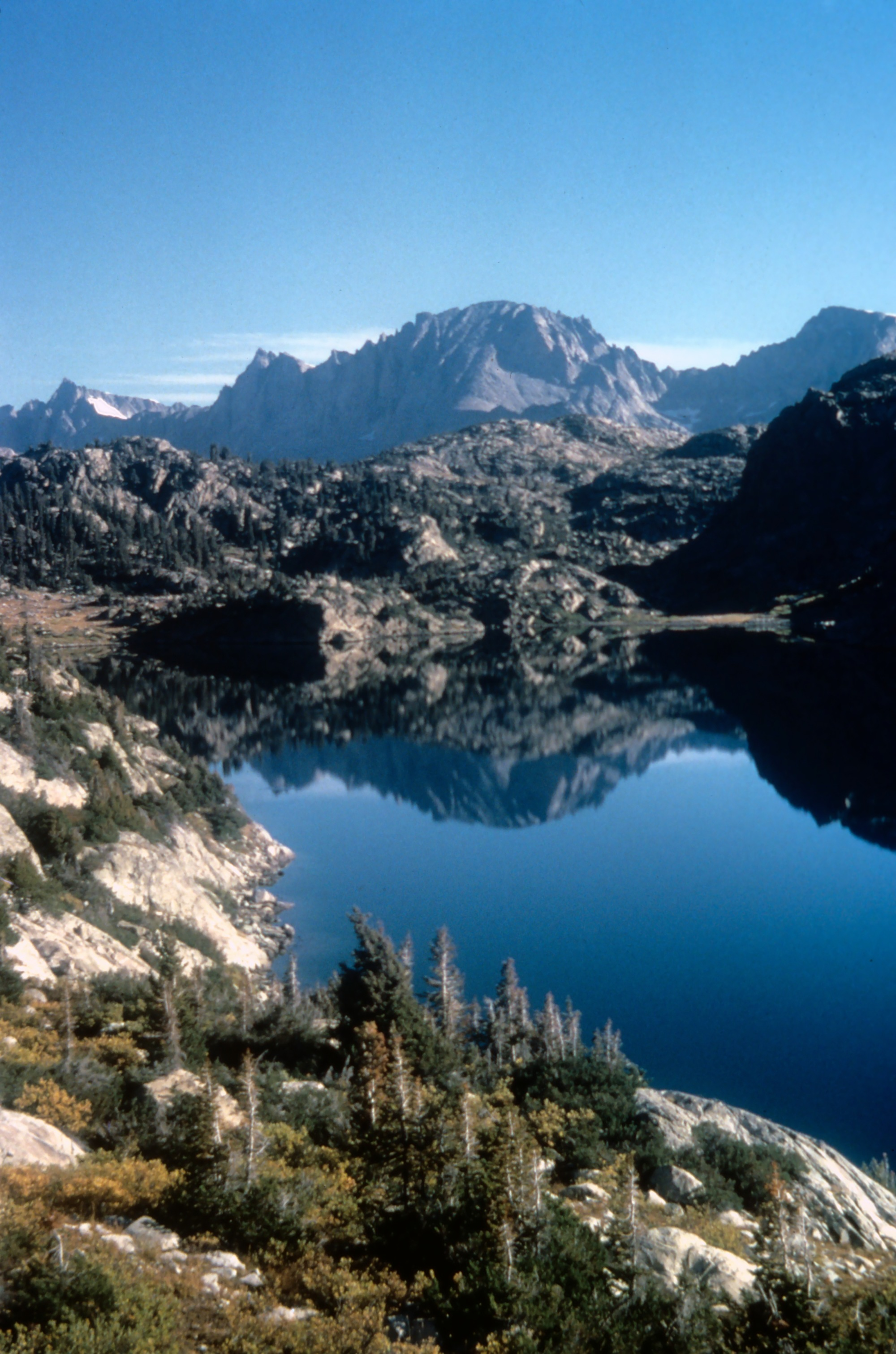 Fremont Peak in the Wind River Range seen from Seneca Lake, Bridger National Forest, Sublette County, Wyoming, U.S.A